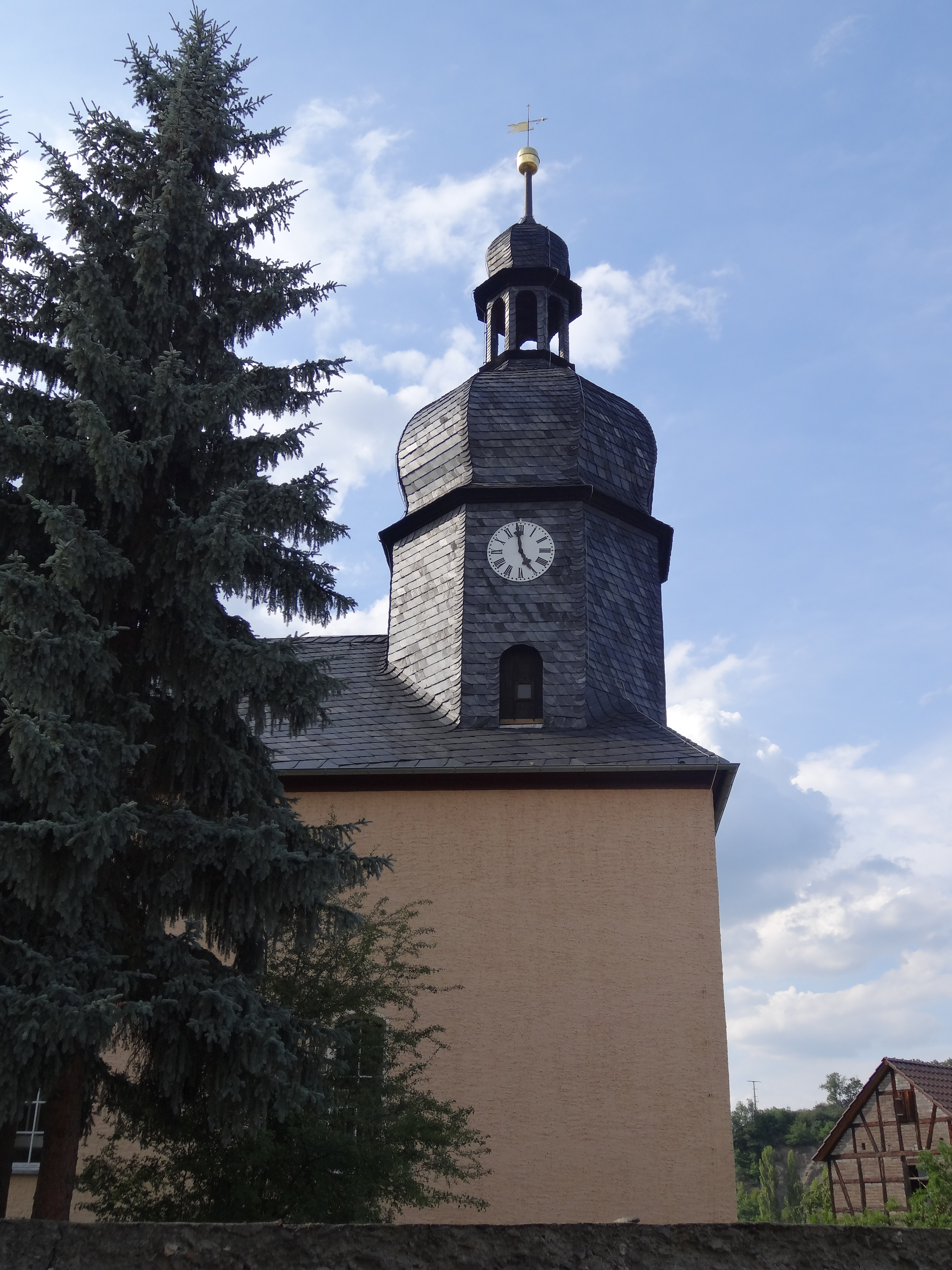 Church in Eichicht, Thuringia, Germany